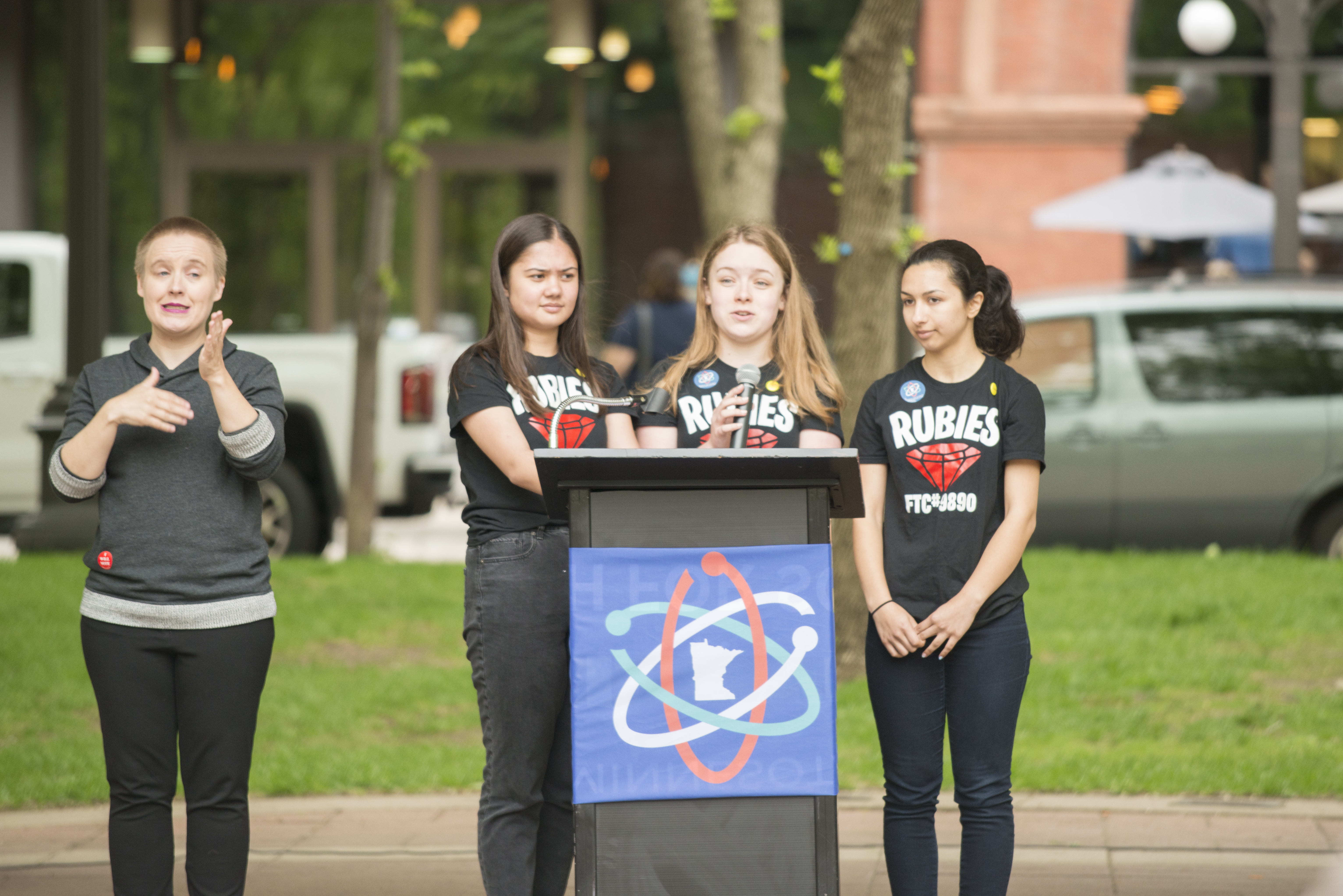 St. Paul, Minnesota May 19, 2018 About 400 gathered in Mears Park to support science and scientific based political policies for the greater public good. The speakers brought up these topics: energy sustainability, protecting the environment and global climate change. 2018-05-19 This is licensed under the Creative Commons Attribution License. Give attribution to: Fibonacci Blue